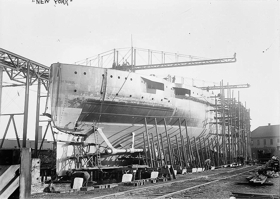 NEW YORK (LOC) Bain News Service,, publisher. USS New York in 1912 [between 1910 and 1915] 1 negative : glass ; 5 x 7 in. or smaller. Notes: Title from unverified data provided by the Bain News Service on the negatives or caption cards. Forms part of: George Grantham Bain Collection (Library of Congress). Subjects: Ships Format: Glass negatives. Repository: Library of Congress, Prints and Photographs Division, Washington, D.C. 20540 USA, General information about the Bain Collection is available at Persistent URL: Call Number: LC-B2- 2450-5